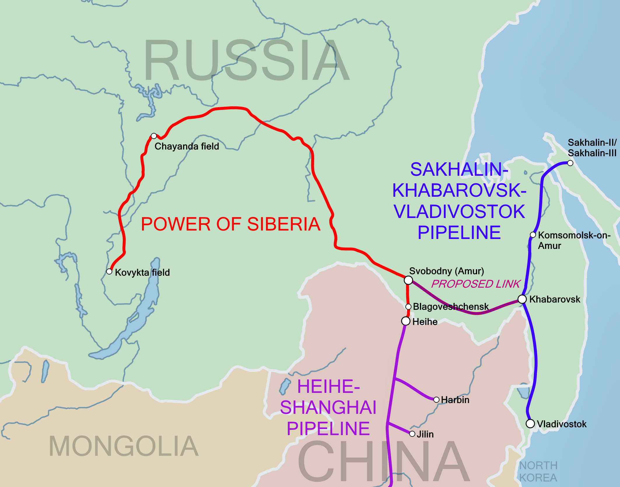 A map of the Power of Siberia pipeline, its connection to the Heihe-Shanghai Pipeline in China, and its possible future connection with the Sakhalin-Khabarovsk-Vladivostok Pipeline in Russia. The map itself is my own work, but uses File:Russia physical location map.jpg as a base for which the borders are based on. The actual routes of the pipelines are from various outside sources including and as well as Wikimedia sources File:Map of the Power of Siberia pipeline.jpg for the proposed connection to the other pipeline here File:Sakhalin–Khabarovsk–Vladivostok pipeline.PNG